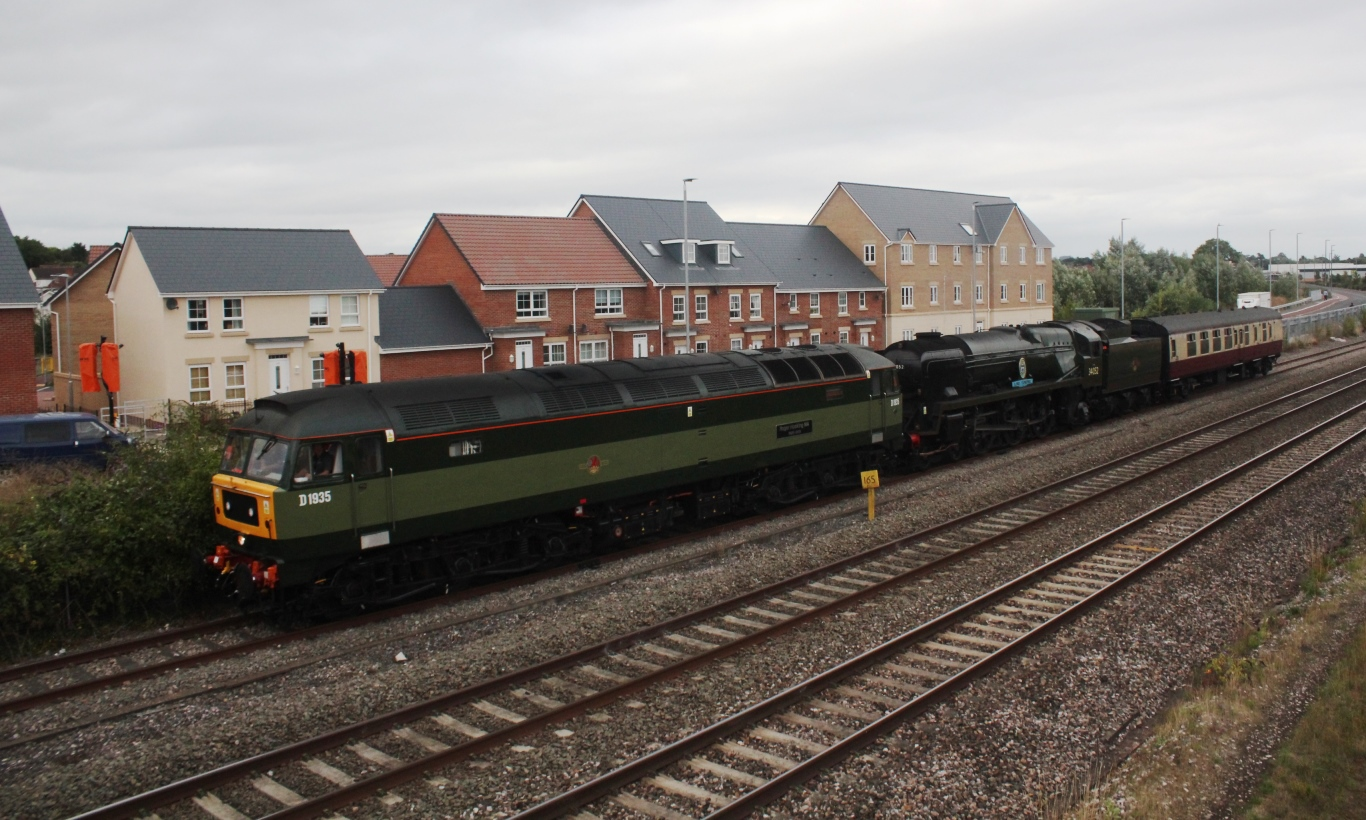 34046 Braunton (but carrying the temporary identity of 34052 Lord Dowding) arrives on the West Somerset Railway. It will be based here for a while, operating trains on both the heritage line and the main line. It is seen at Norton Fitzwarren with heritage class 47 diesel D1935 which has brought it from Southall.